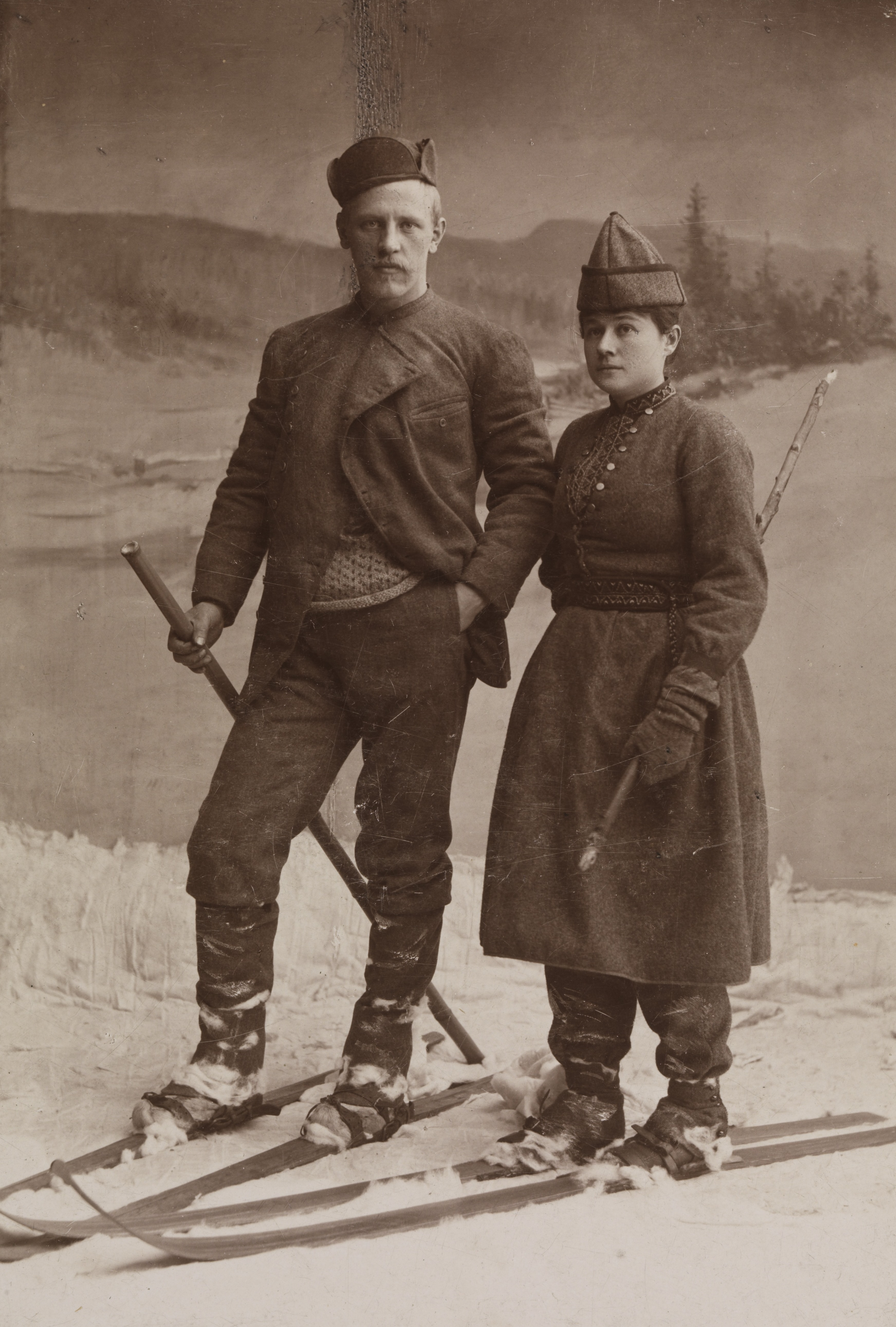 Fridtjof Nansen and Eva Nansen posing on skis in the photographer's studio.